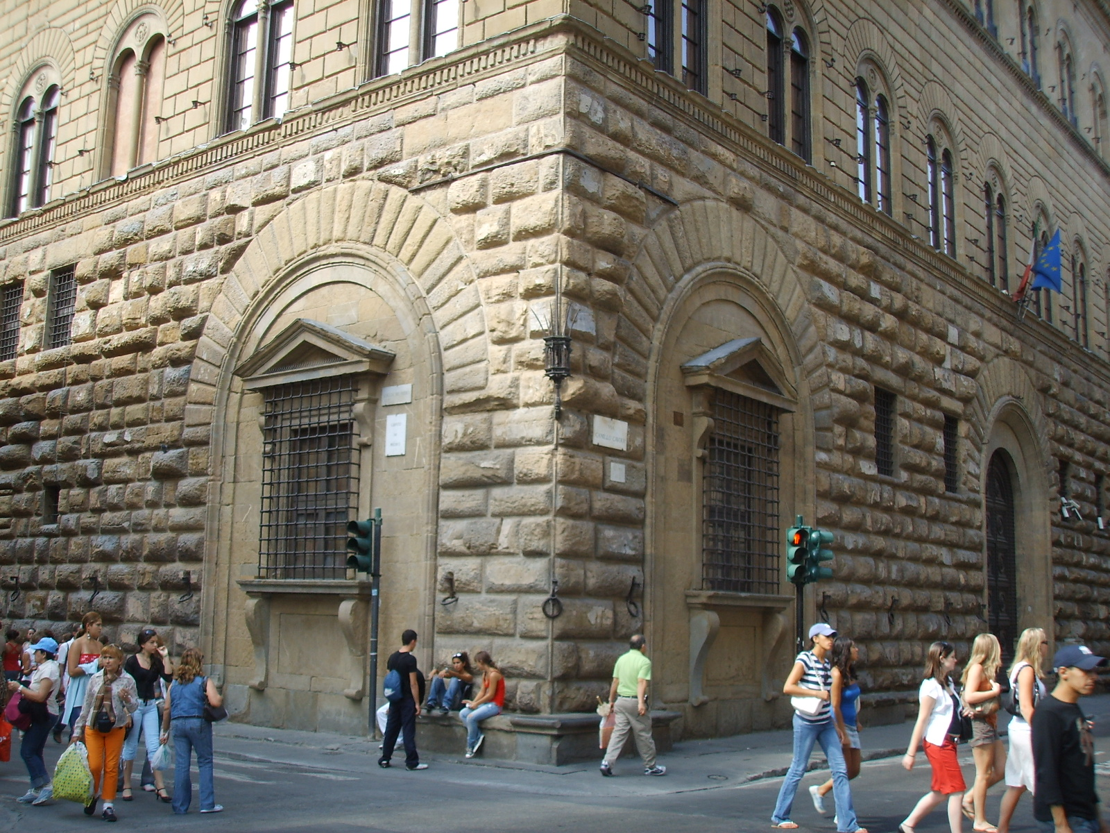 One among the famous "kneeling windows", allegedly designed by Michelangelo Buonarroti for the facades of Palazzo Medici Riccardi in Florence, Italy. Whoever the real inventor, these are the prototypes of all "kneeling" windows, much used in Tuscany in the mannerist and baroque periods.